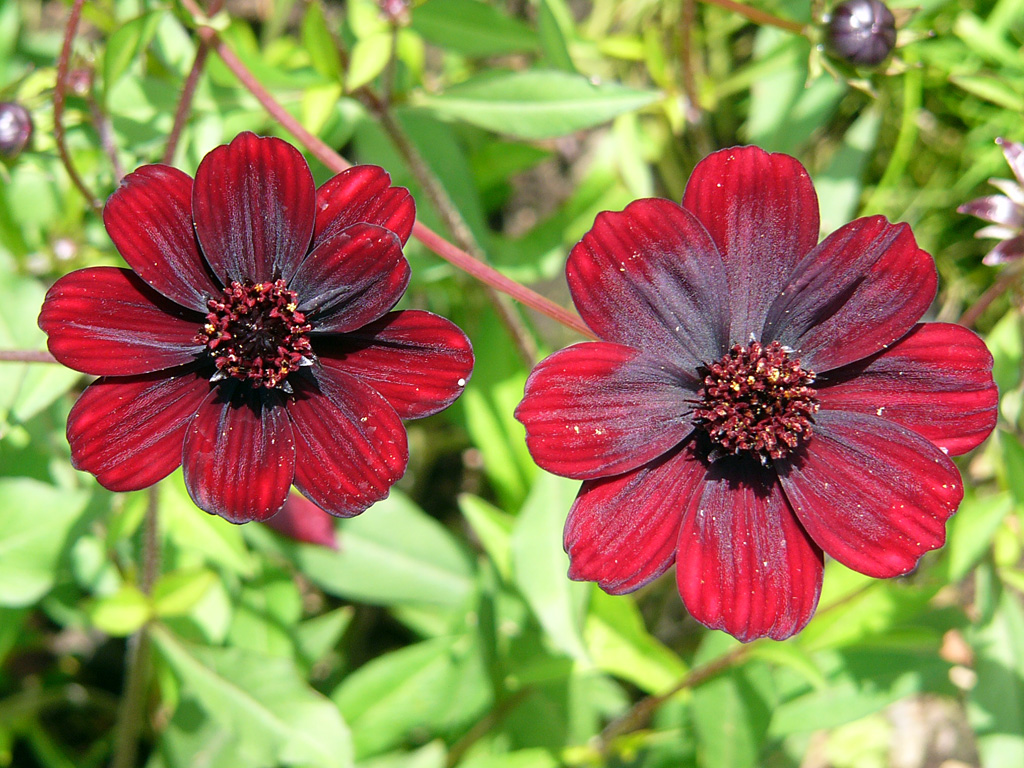 Flower in the gardens of Torosay Castle.